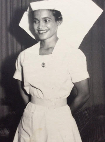 MaryAnn Bin-Sallik in 1962 - published then and now over 50 years old. No author creditted.